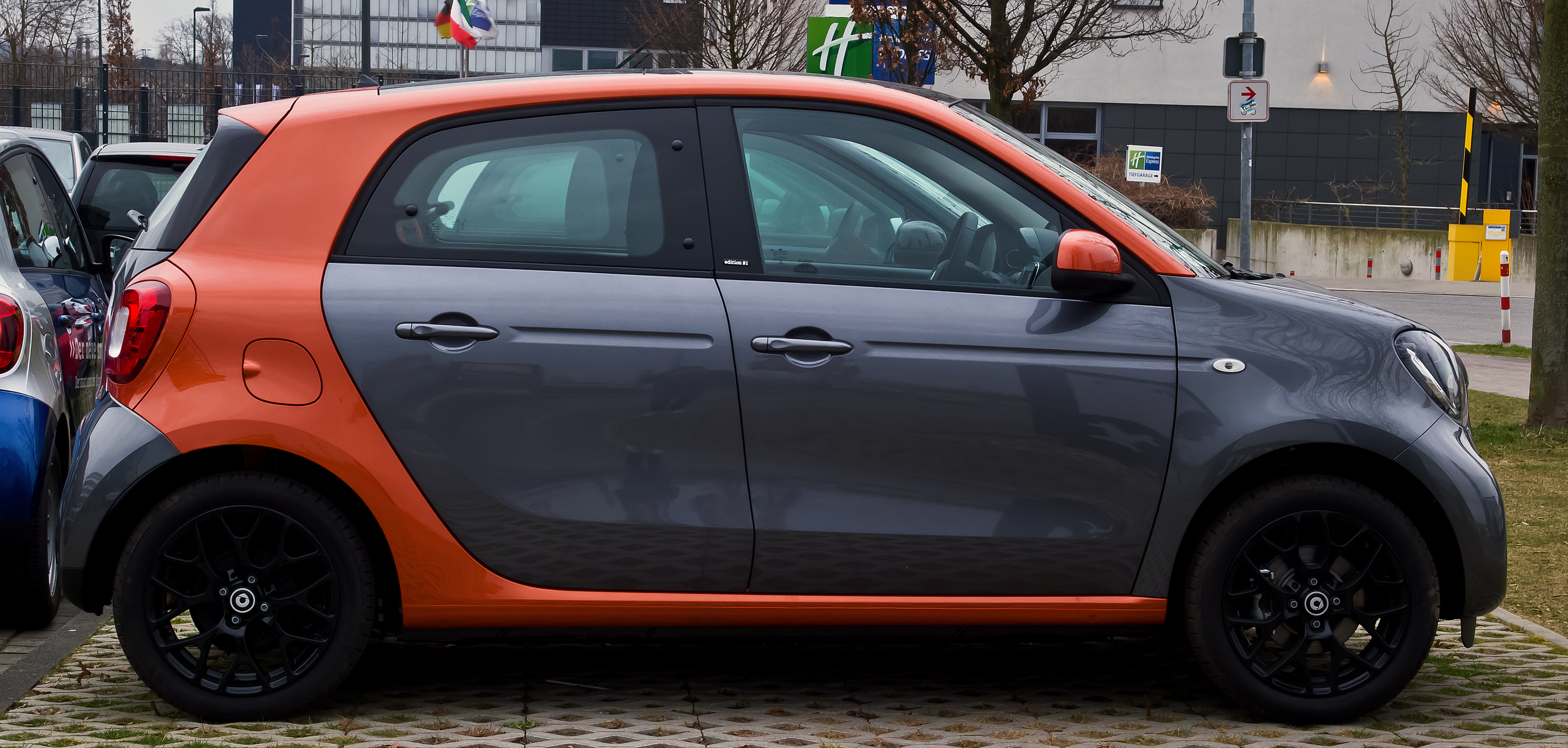 Smart Forfour 1.0 Edition #1 (W 453)